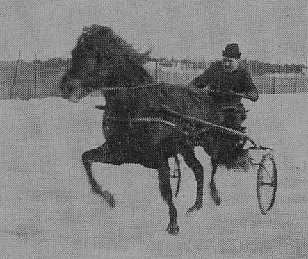 Finnhorse stallion Eino-Vakaa (1898-1913) and Fritz Buttenhoff (1874-1955) racing on the ice of Helsinki North Harbor in 1910.